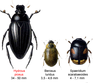 Three species of aquatic beetles in the family Hydrophilidae: Berosus luridus, Hydrophilus piceus, and Sphaeridium scarabaeoides.